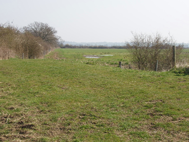 RSPB reserve, Otmoor. This is the north west corner of RSPB's Otmoor reserve, see Oxford Ornithological Society for map of the reserve There are public paths around this area of the reserve, but no public access, which is provided from Beckley at the south of the reserve.